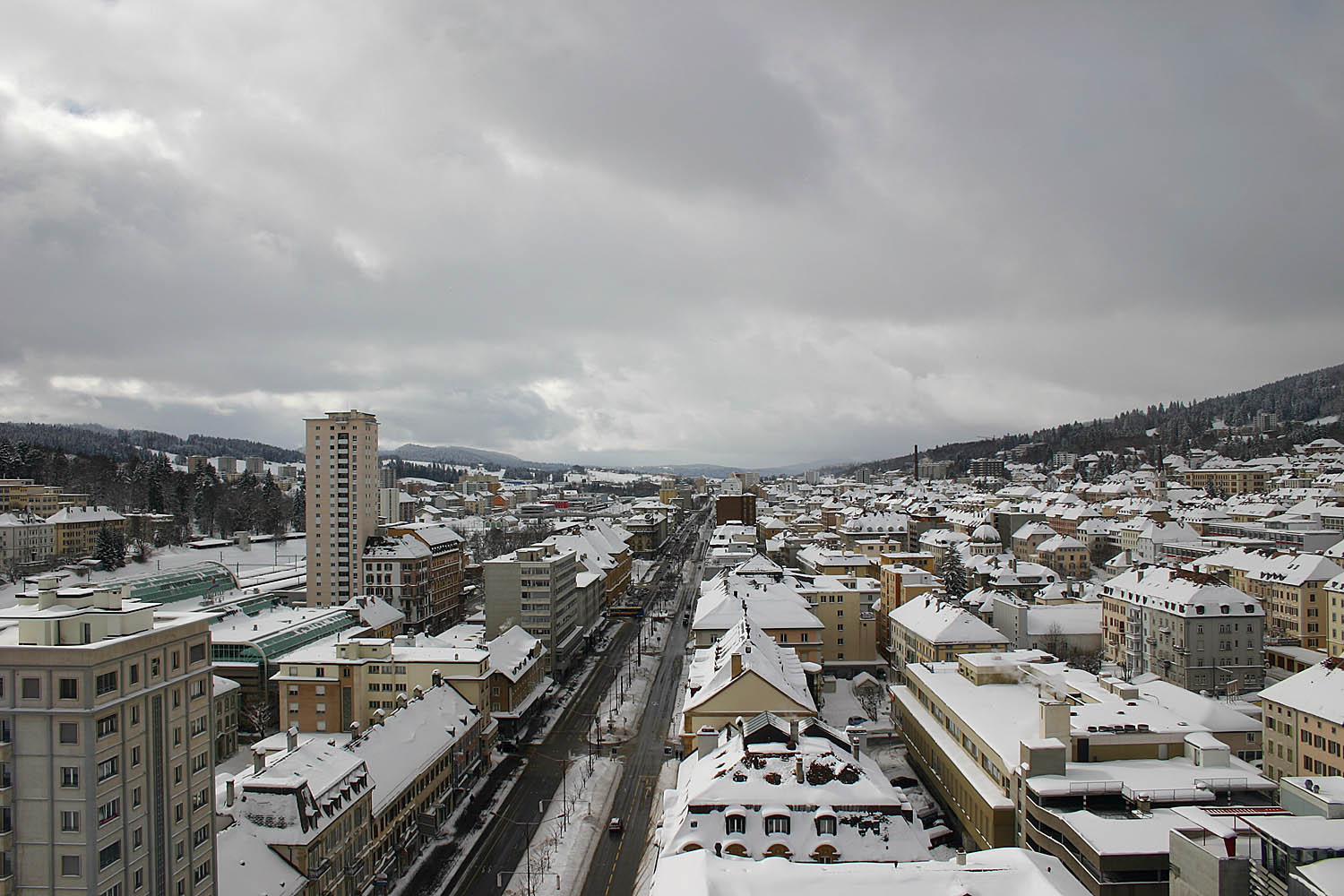 View of Avenue Léopold Robert, La Chaux-de-Fonds, Switzerland